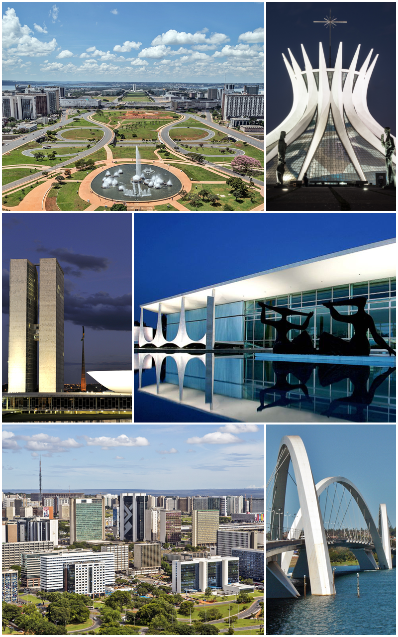 From the top, clockwise: Monumental Axis seen from the TV Tower; Metropolitan Cathedral at night; facade of the Alvorada Palace; Juscelino Kubitschek bridge in Paranoá Lake; buildings of the South Banking Sector and the National Congress building with the national mast in the Three Powers Plaza at the background.